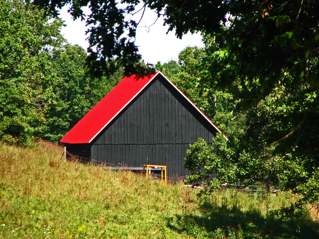 A barn along Holbrook Road northeast of Stockdale in central Marion Township, Pike County, Ohio, United States.